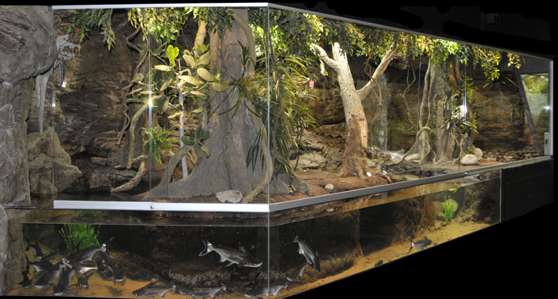 21 m² large Terrarium built 2010 for Reticulated python at Kolmarden Tropicarium. Photo: Dan Koehl